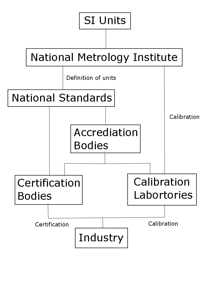 Overview of the structure of a national measurement system